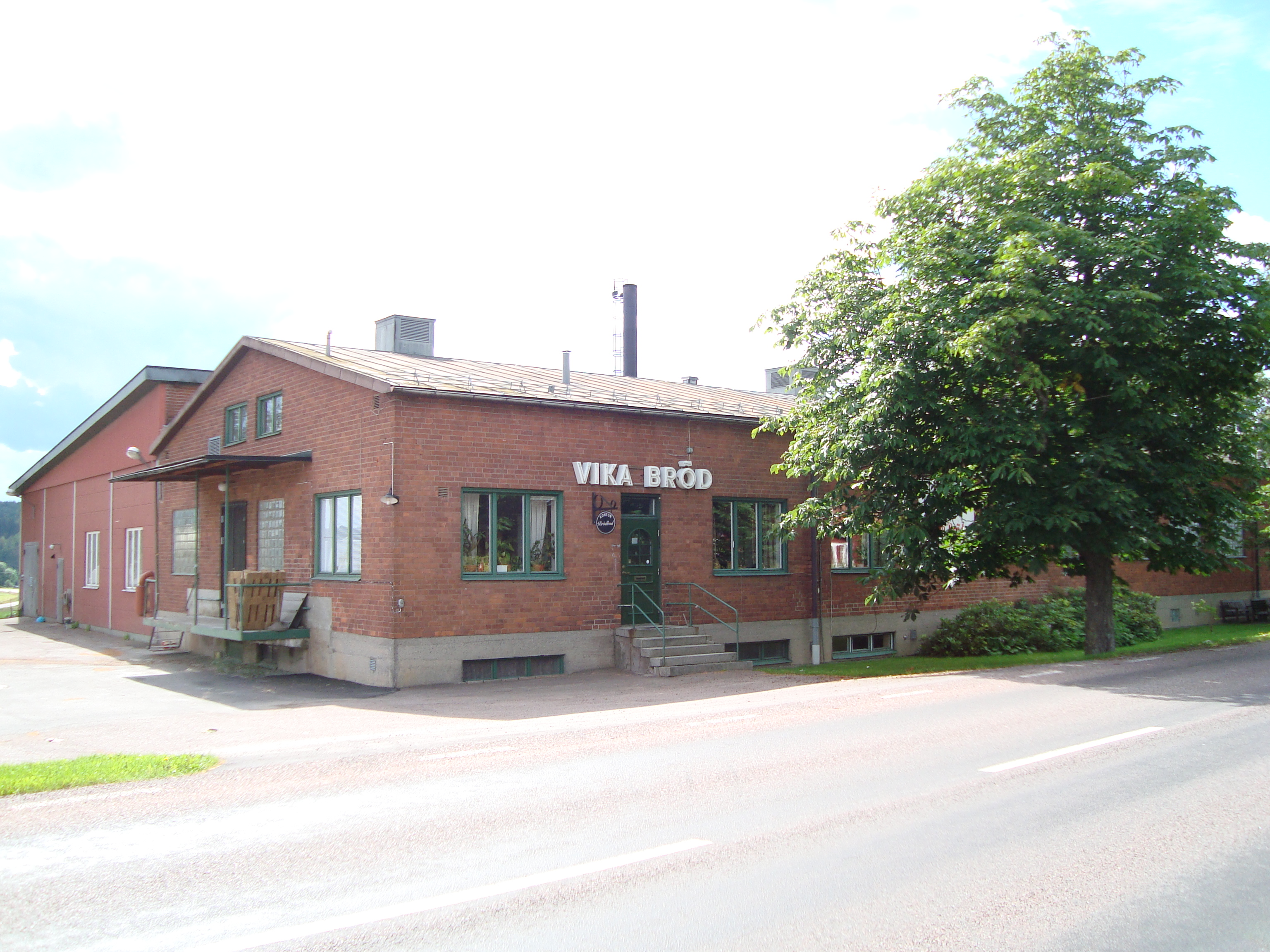 Vika Bröd, Stora Skedvi, Säter Municipality, Sweden